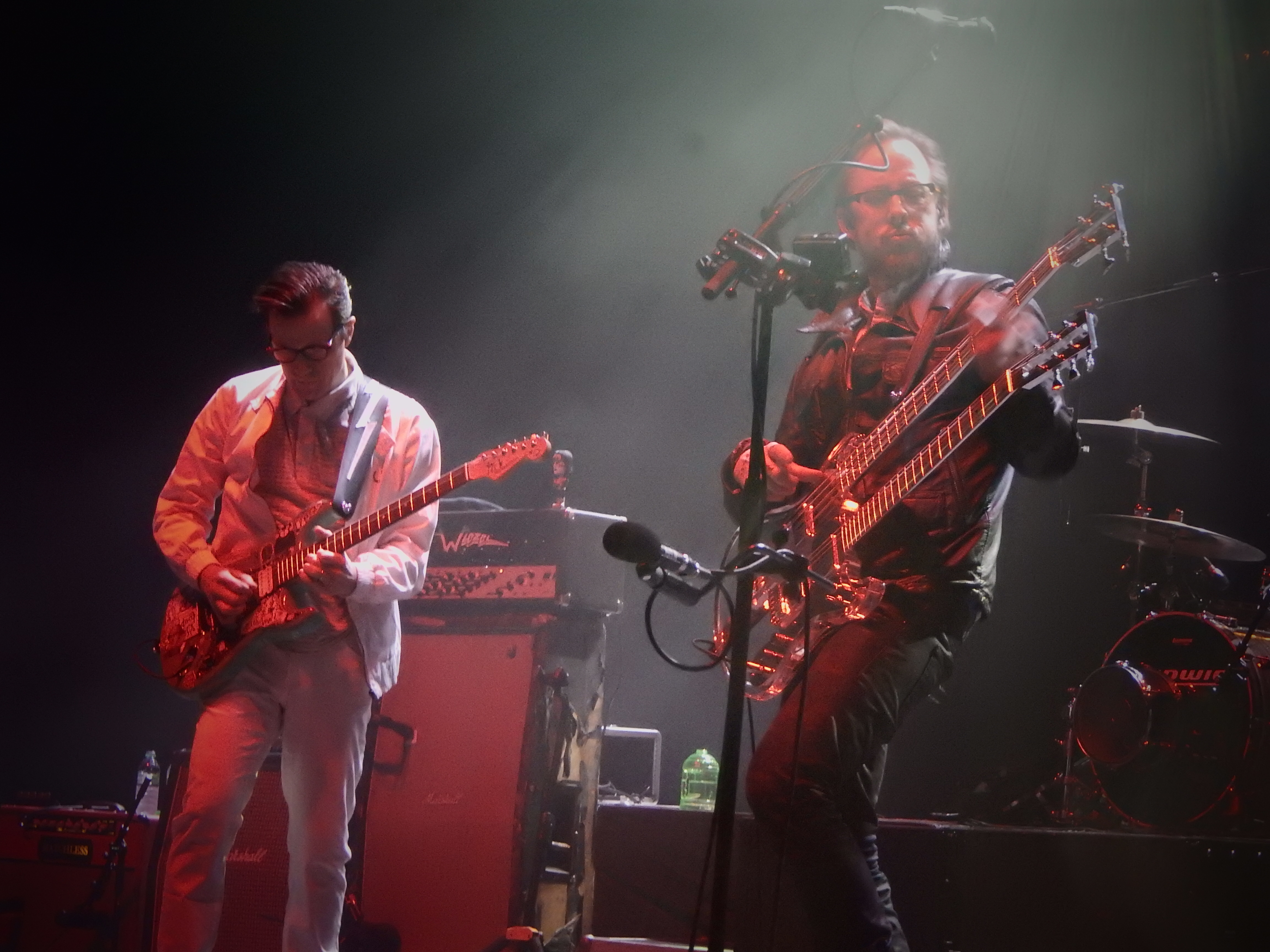 Weezer, Brixton Academy, London